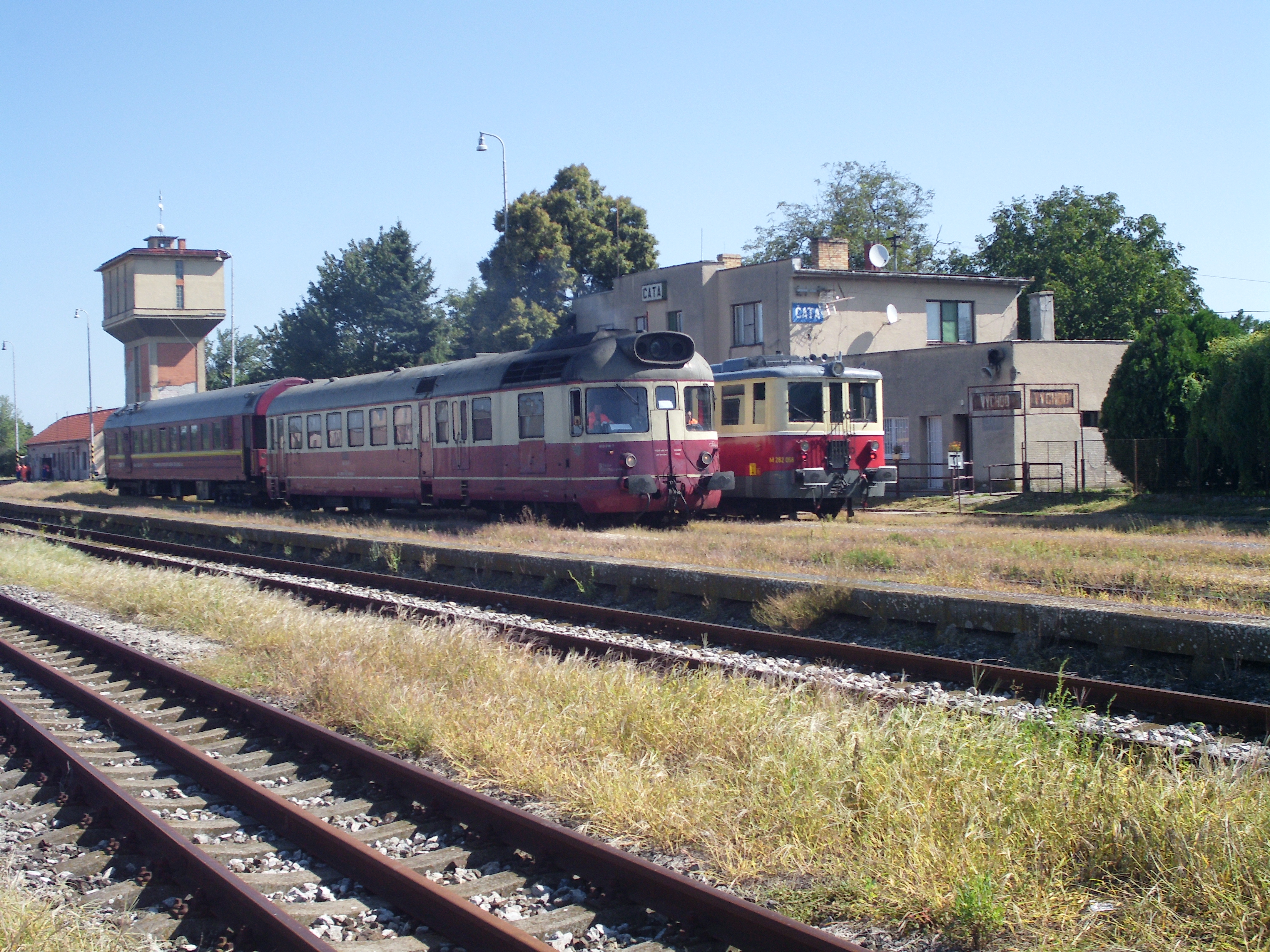 Diesel railcars 850 (left, belonging to ŽSSK) and 830 (right, marked as M262, belonging to KŽC Doprava) meeting in Čata, Slovakia.